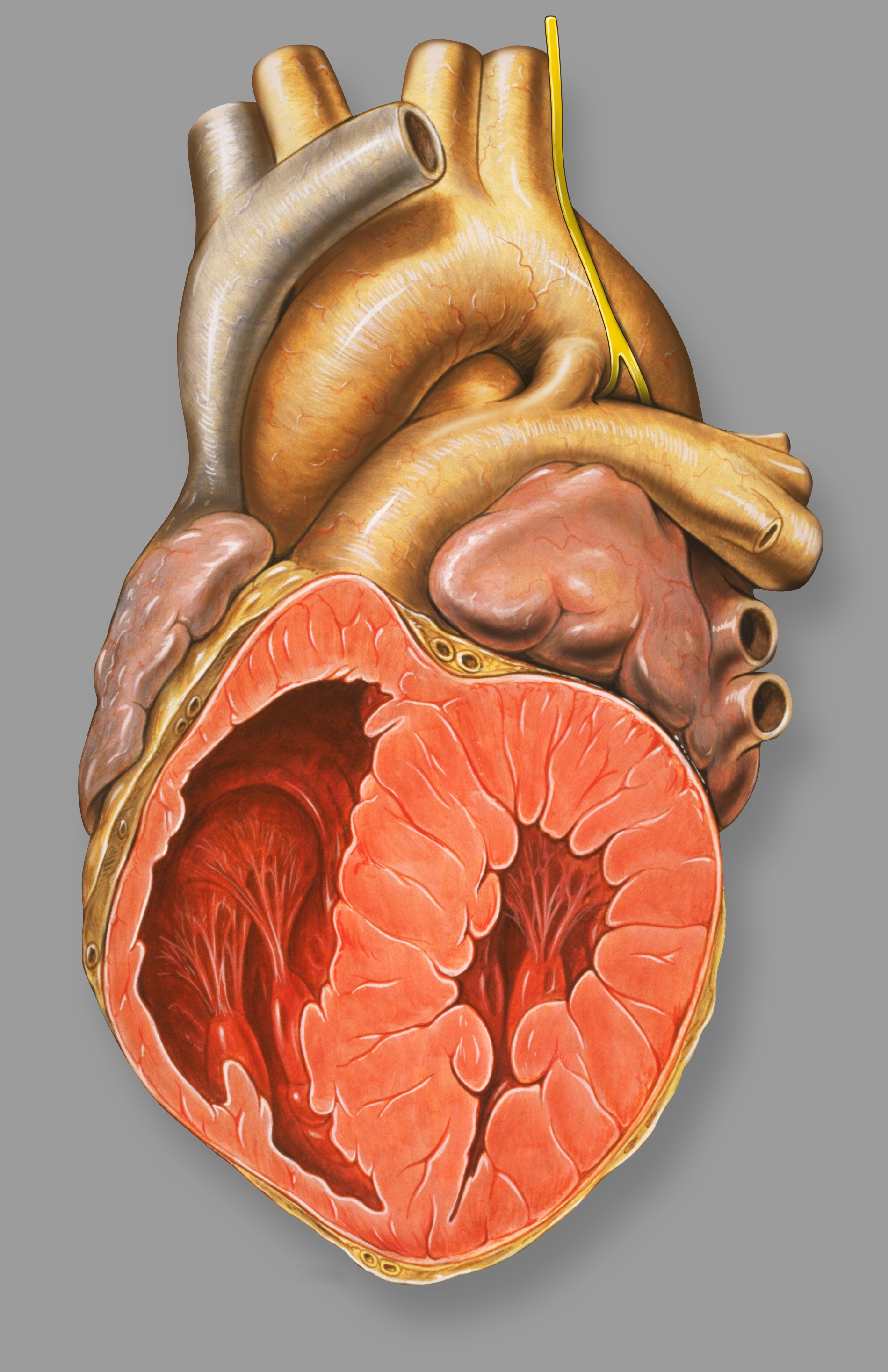 Heart patent ductus arteriosus anatomic illustration